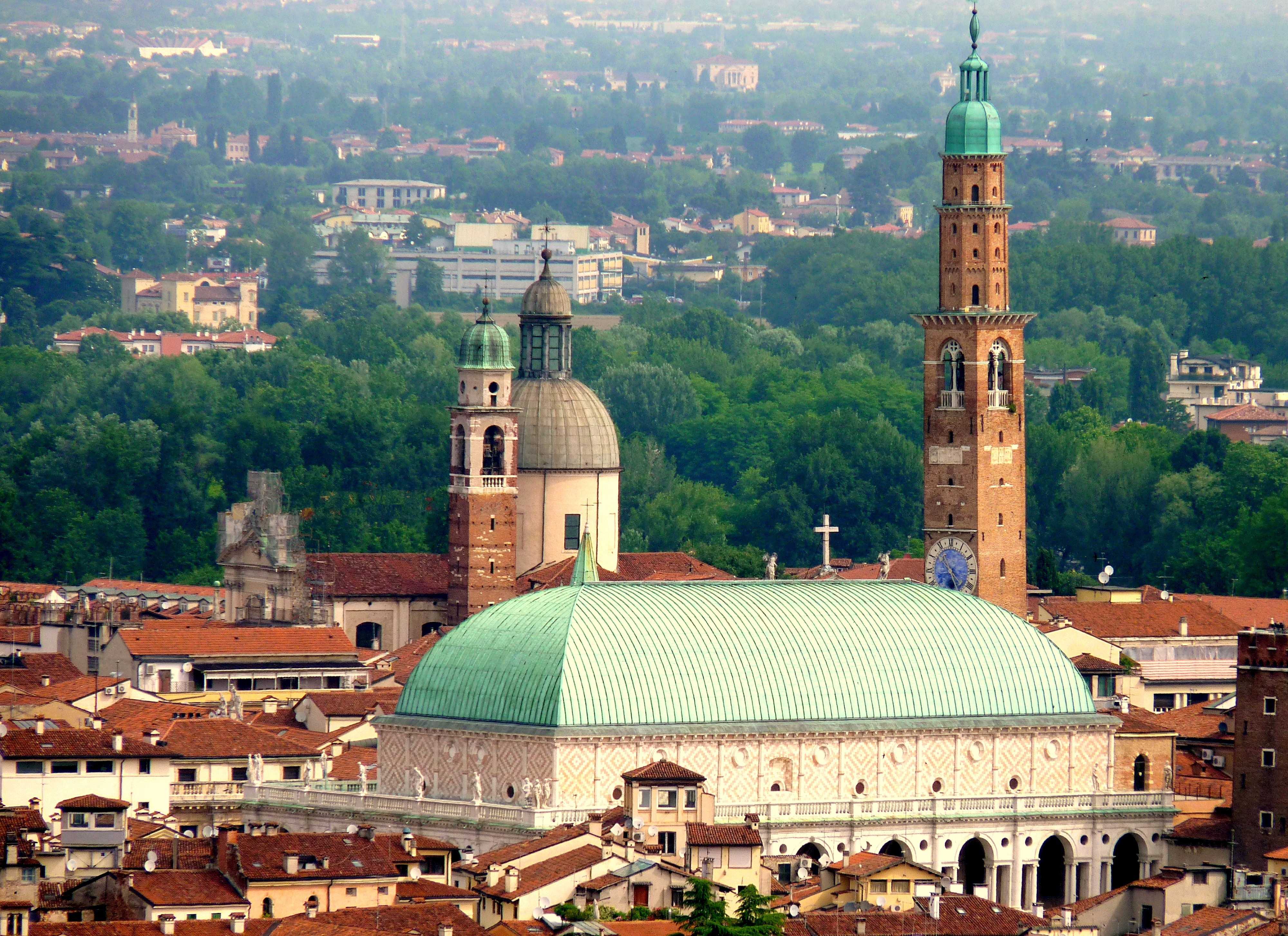 Vicenza - (World Heritage List) - Palladian Basilica - (National Monument)